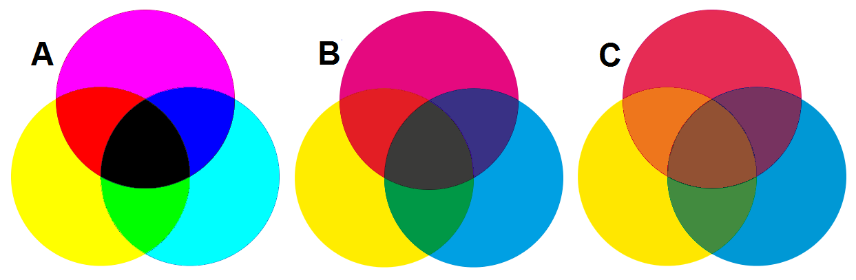 Subtractive color models: A) CMY theoretical model. B) CMYK practical model. C) RYB model.